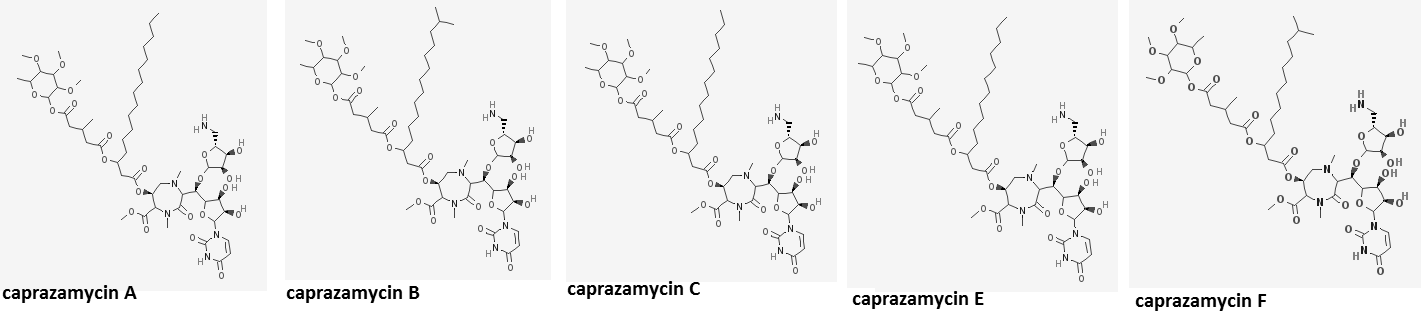 Caprazamycins